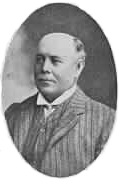 Crop of Alexander Cameron's picture from File:Members of Prahran & Malvern Tramway Trust as first Constituted, 1908.jpg